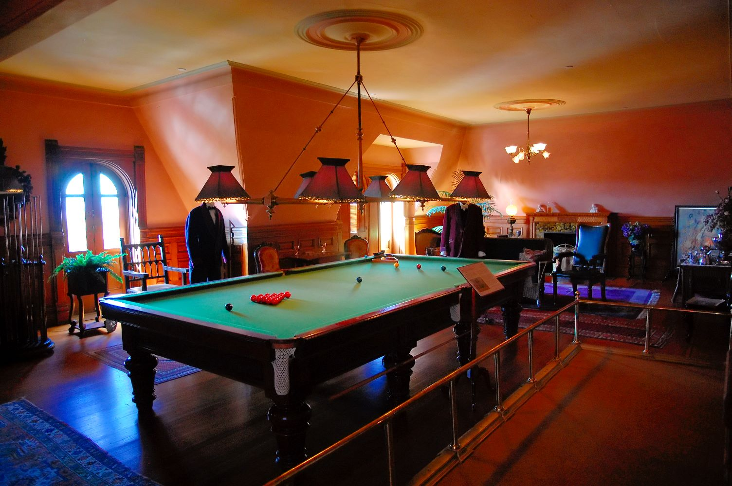 Billiards room in an upper floor of Craigdarroch Castle in Victoria, British Columbia